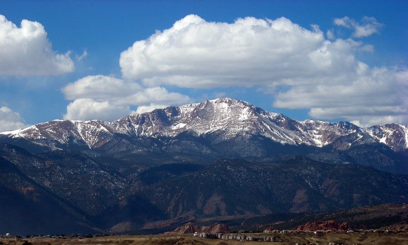 View of Pikes Peak from the University of Colorado at Colorado Springs, sometime before 2008.